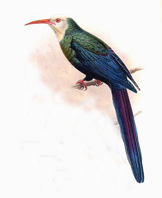 Phoeniculus bollei jacksoni painting by Keulemans